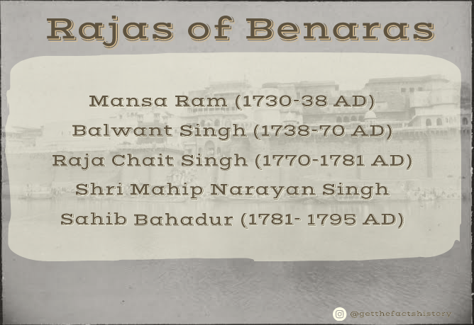 Timeline of Bhumihar Rajas of Benaras by Get the facts History